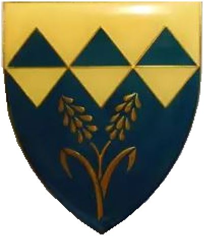 SADF era Waterberg Commando emblem